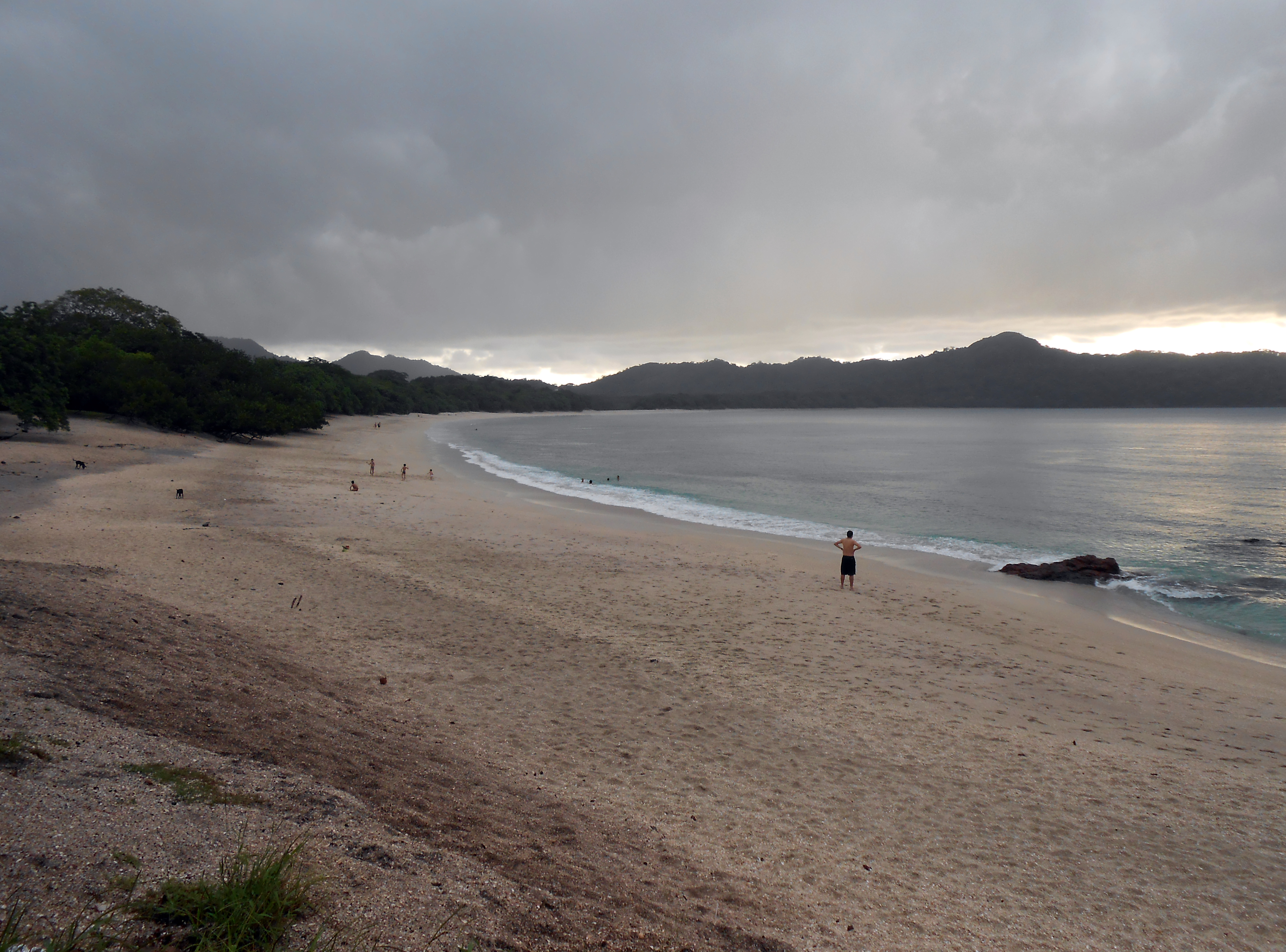 Playa Conchal in Guanacaste, Costa Rica